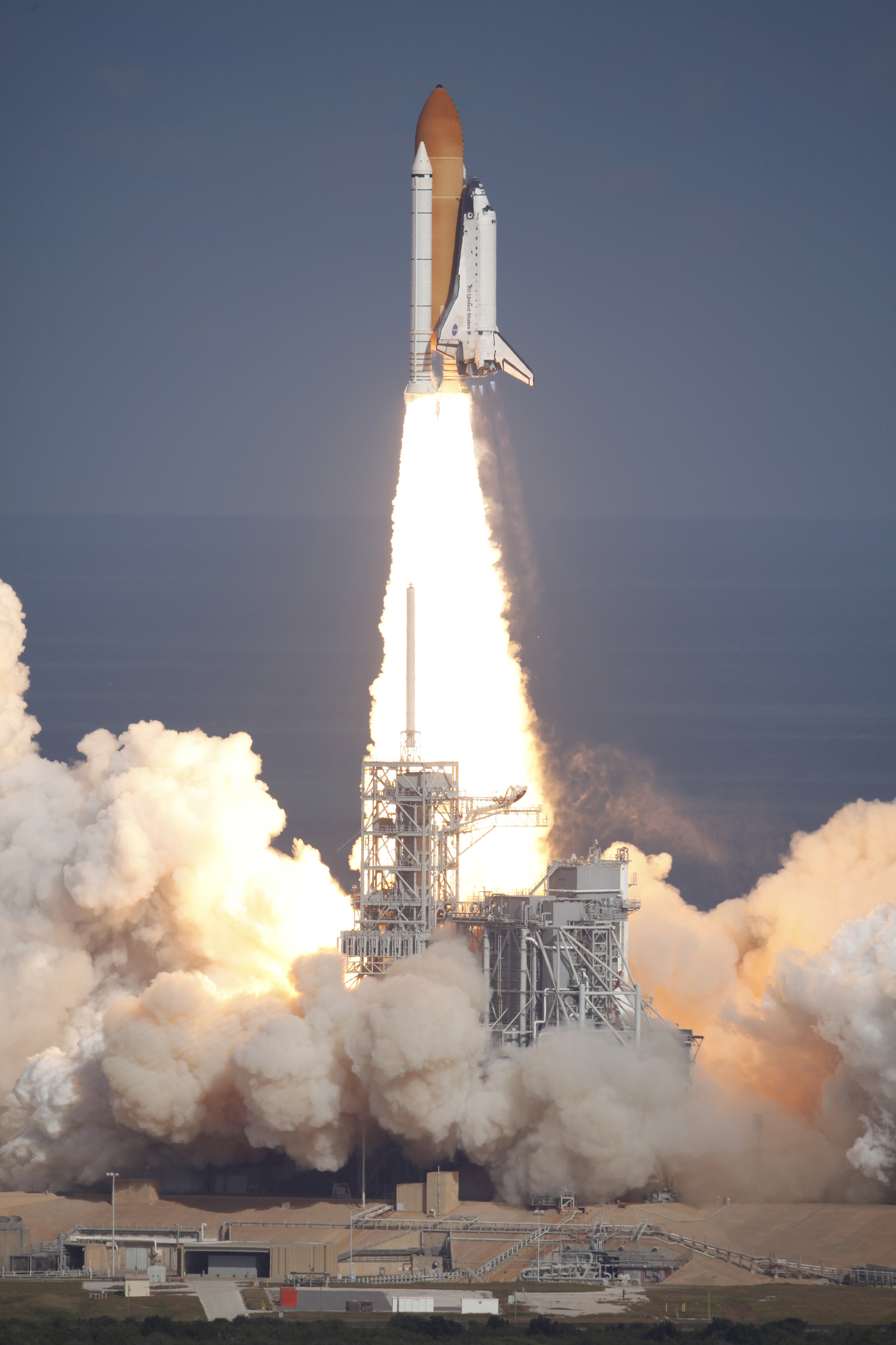 CAPE CANAVERAL, Fla. - Like a phoenix rising from the flames, space shuttle Atlantis emerges from the exhaust cloud on Launch Pad 39A at NASA's Kennedy Space Center in Florida. Liftoff on its STS-129 mission came at 2:28 p.m. EST Nov. 16. Aboard are crew members Commander Charles O. Hobaugh; Pilot Barry E. Wilmore; and Mission Specialists Leland Melvin, Randy Bresnik, Mike Foreman and Robert L. Satcher Jr. On STS-129, the crew will deliver two Express Logistics Carriers to the International Space Station, the largest of the shuttle's cargo carriers, containing 15 spare pieces of equipment including two gyroscopes, two nitrogen tank assemblies, two pump modules, an ammonia tank assembly and a spare latching end effector for the station's robotic arm. Atlantis will return to Earth a station crew member, Nicole Stott, who has spent more than two months aboard the orbiting laboratory. STS-129 is slated to be the final space shuttle Expedition crew rotation flight. For information on the STS-129 mission and crew, visit